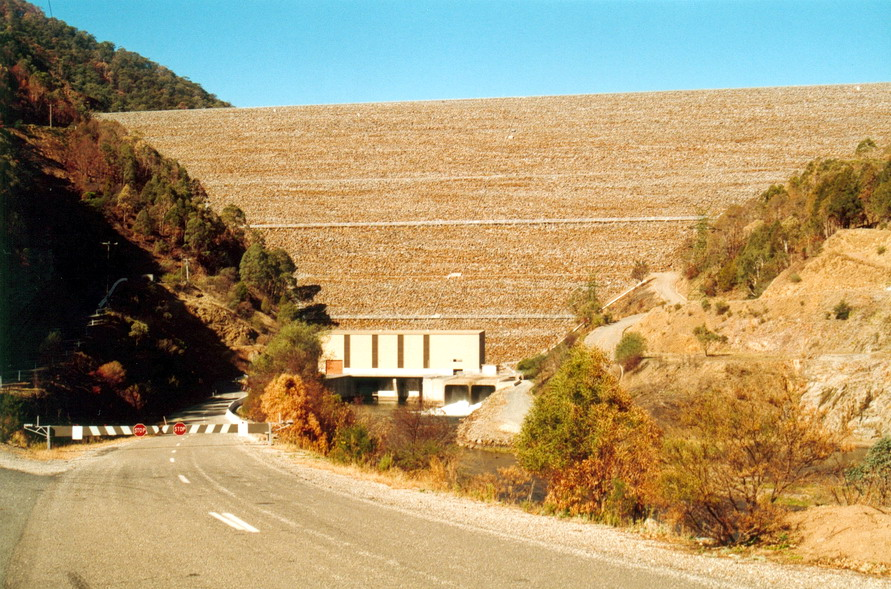 Dartmouth Dam wall, taken April 2003.